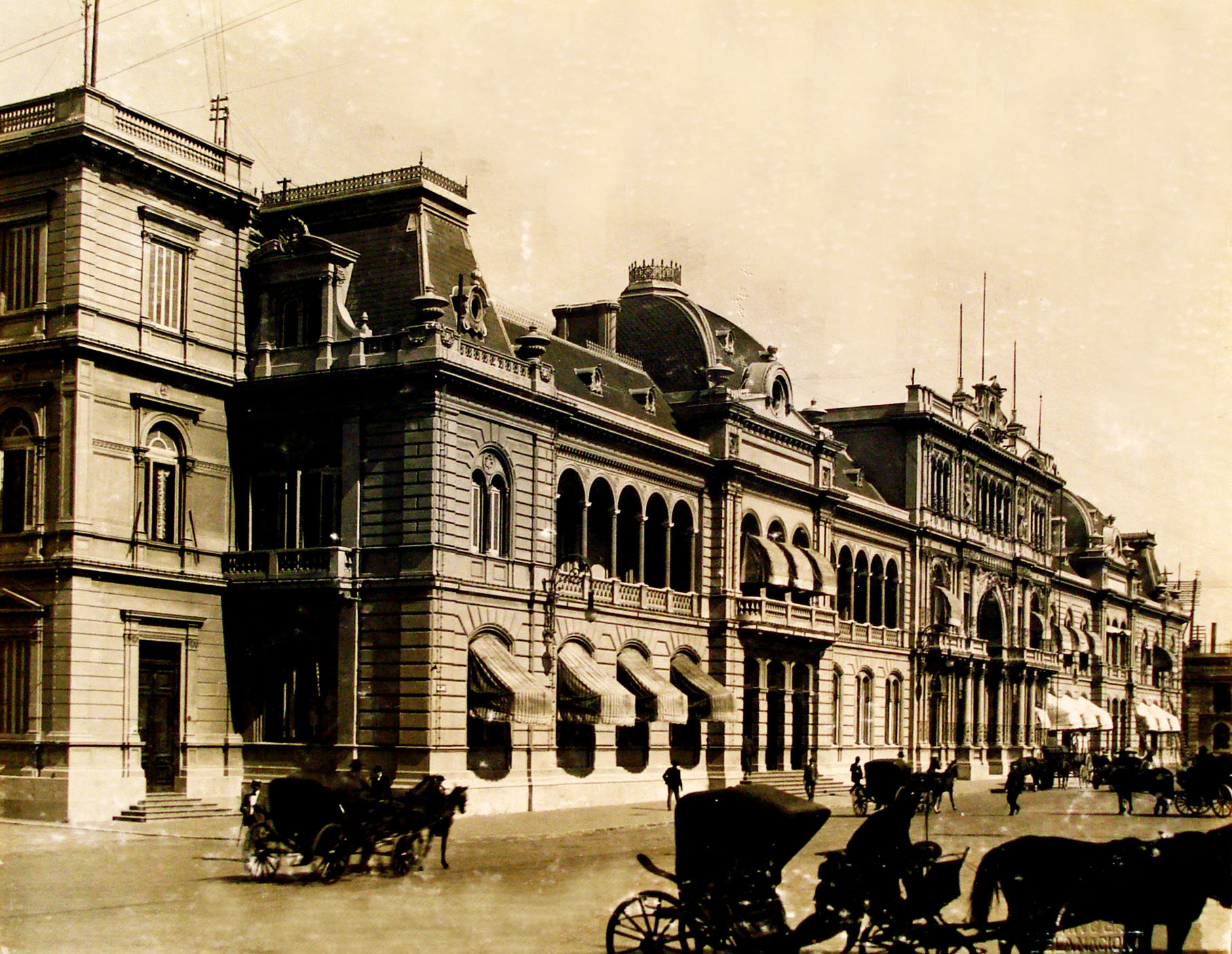 Casa Rosada of Buenos Aires.